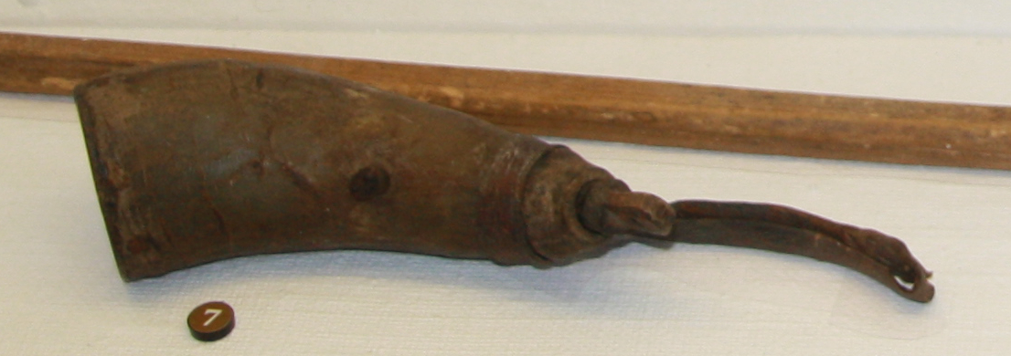 Oil Jar in cow horn for mosquito-repelling pitch oil , a by-product of the distillation of wood tar. Carried in a leather strap on a belt. Ranea, Norrbotton, since 1921 in Nordiska museet, Stockholm.